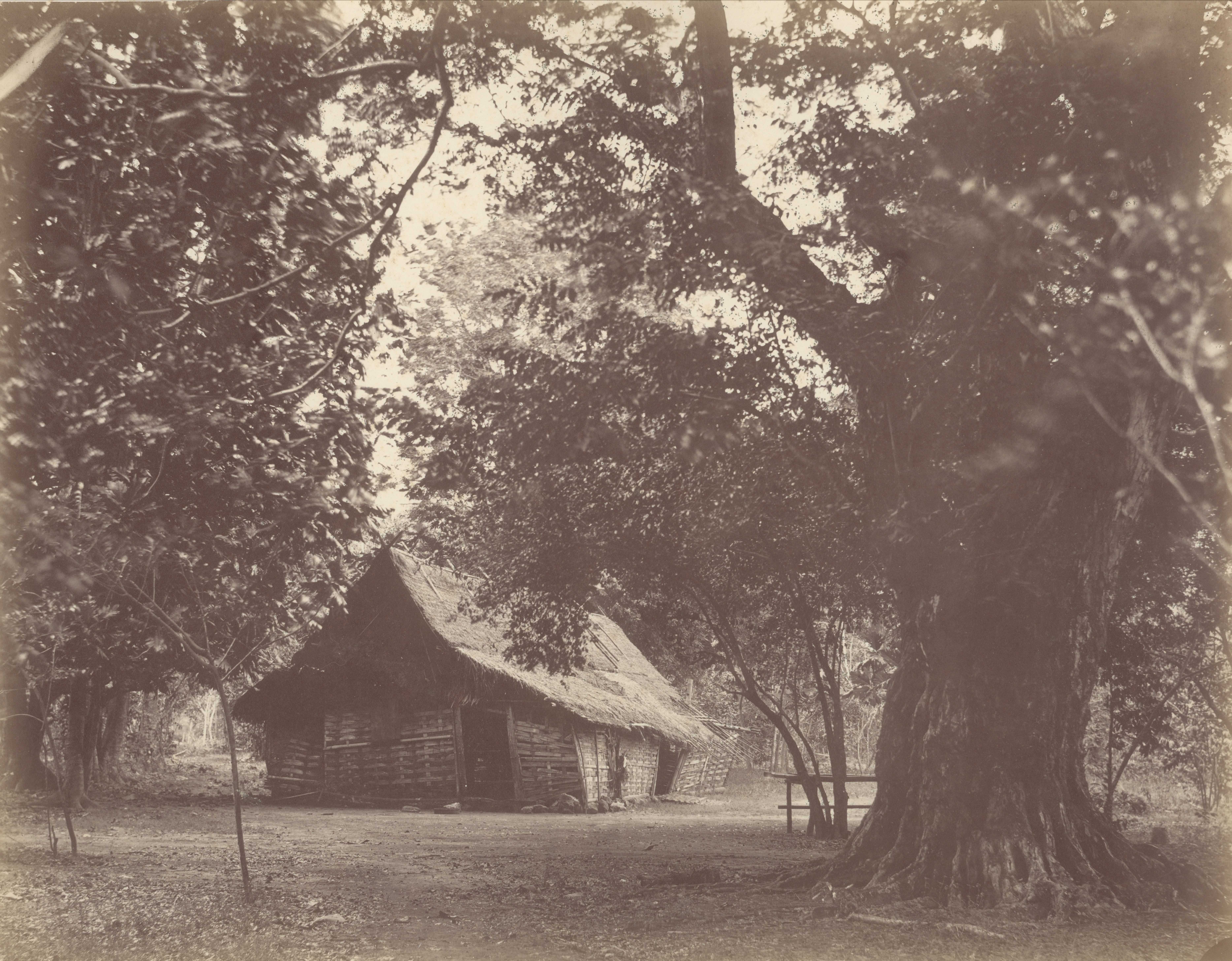 Fisherman's house and big tree on Amsterdam Island (Untung Jawa) in 1876. Part of the series Oude albumnrs 1/94 en K 12. Photogrammen van de Etablissementen der Ned. Ind. Droogdokmaatschappij op het eiland "Amsterdam" eerbiediglijk aangeboden aan ZKH Prins Hendrik der Nederlanden, Beschermheer, door A.G. Bosch, Directeur, Batavia 1876. 2e ex. opgenomen onder fotonummer 87501 (A 661). Former shelfmark: 310/11120/1.94.8.